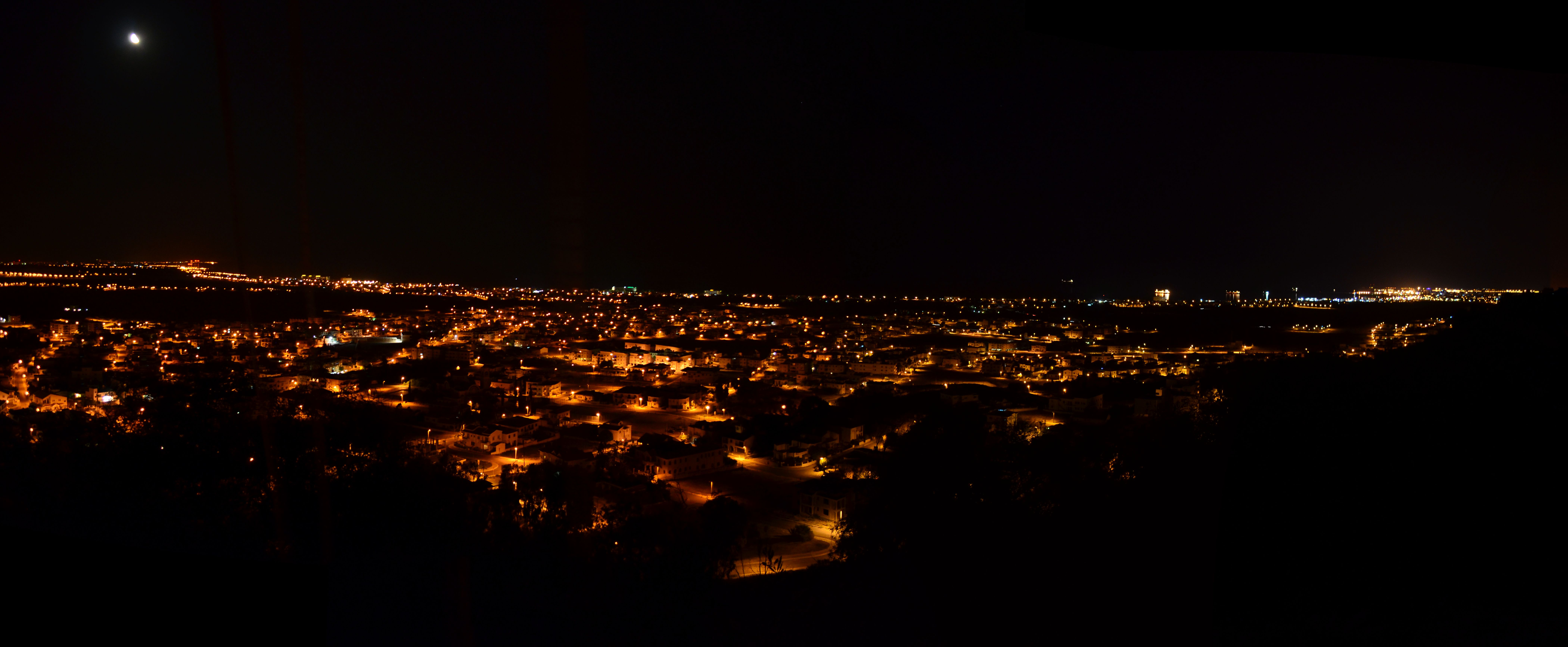 View from Oroklini Hill towards Larnaca